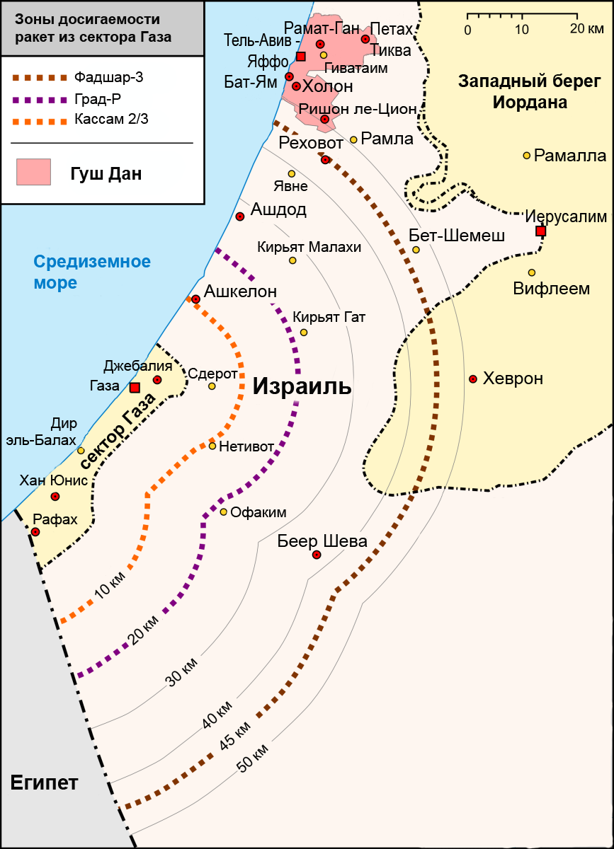 Range of missiles launched from Gaza Strip.